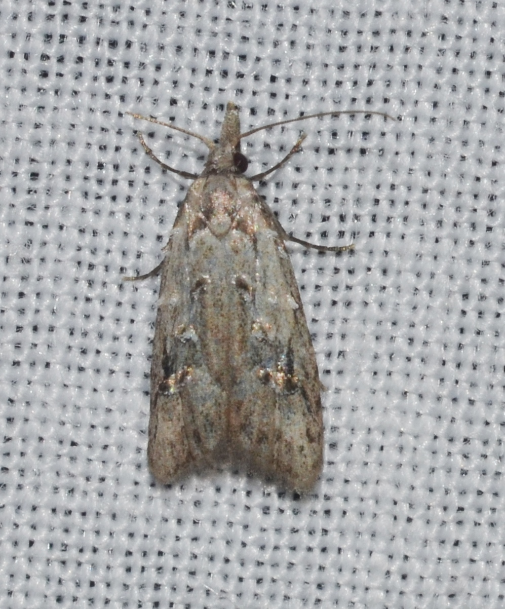 Cuivre River State Park 8/30/14